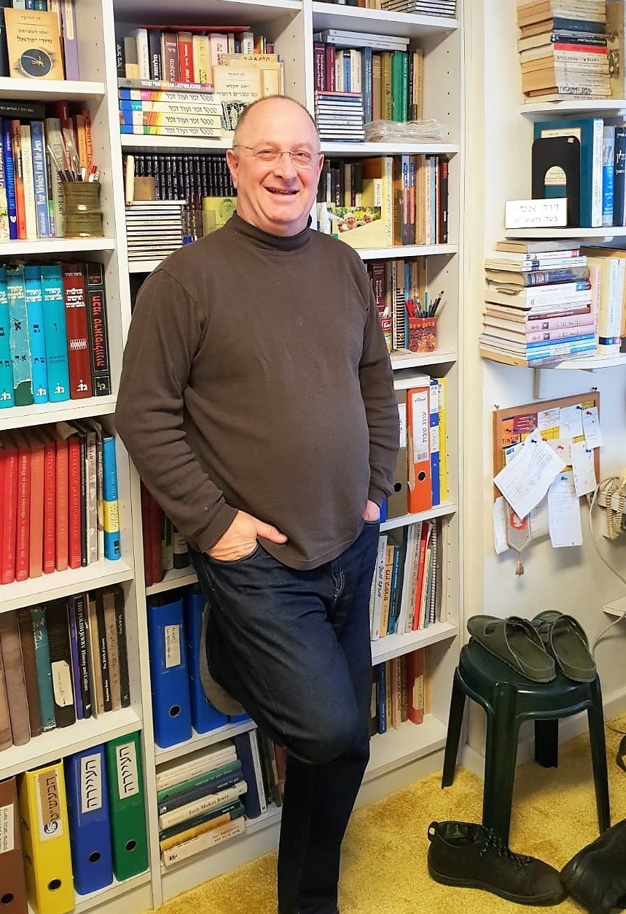 David Assaf in his study